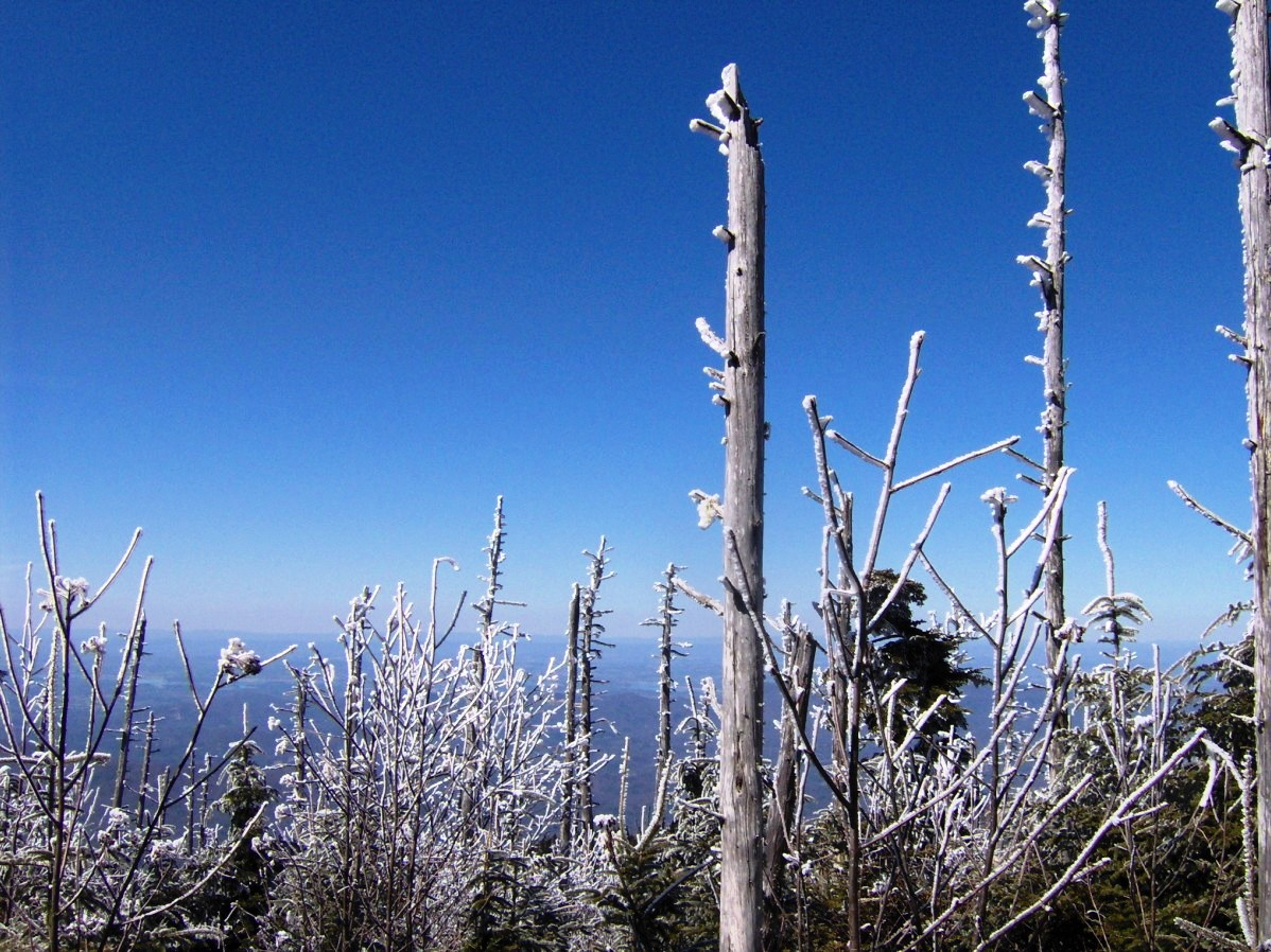 Looking northwest from a clearing just off the summit of Mount Guyot in the Great Smoky Mountains. Sevier County, Tennessee is below. The dead trees are fraser firs, killed by the balsam wooly adelgid invasion. This view is from atop a Fraser fir blowdown which had fallen atop another Fraser fir blowdown.